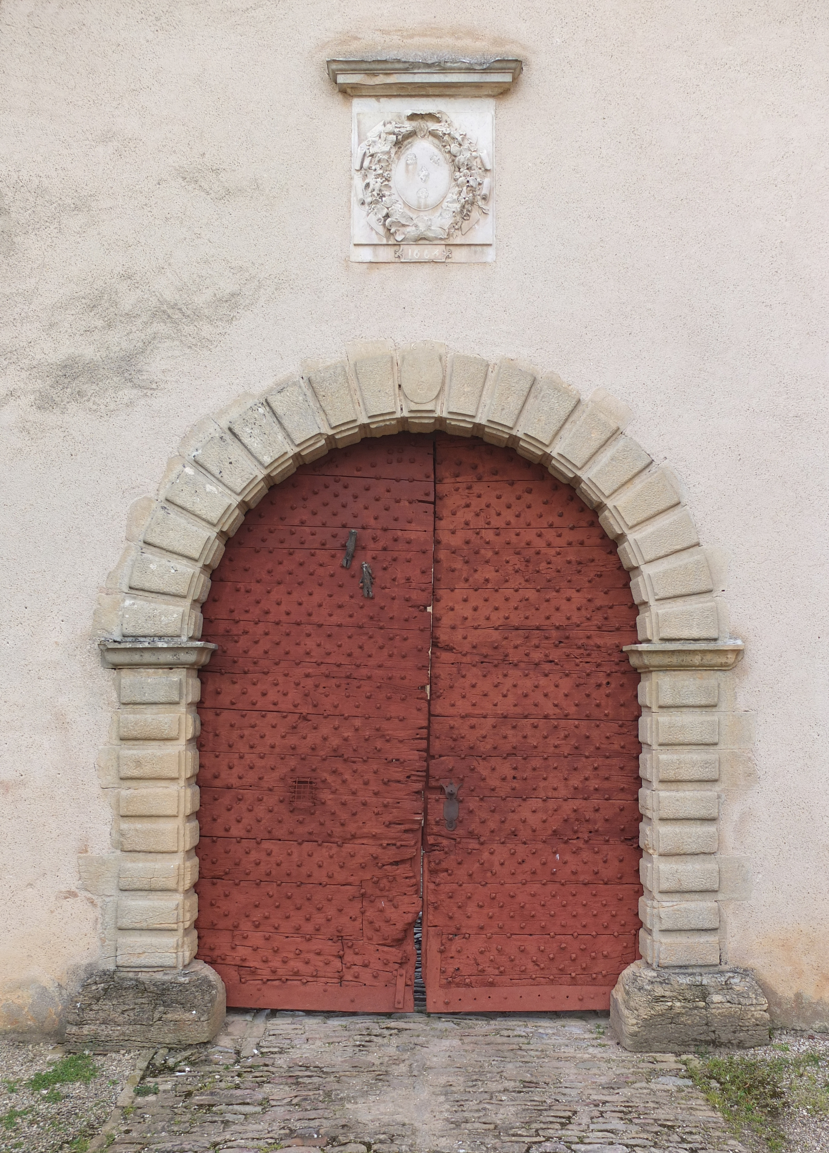 Portal (1619) of Château de Pierreclos, France.Base Mémoire: APMH00273005